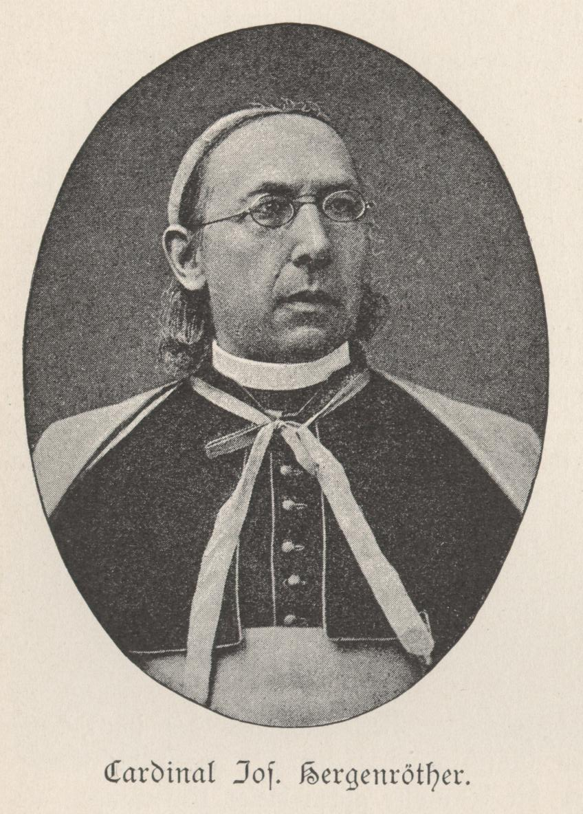 Cardinal Josef Hergenroether